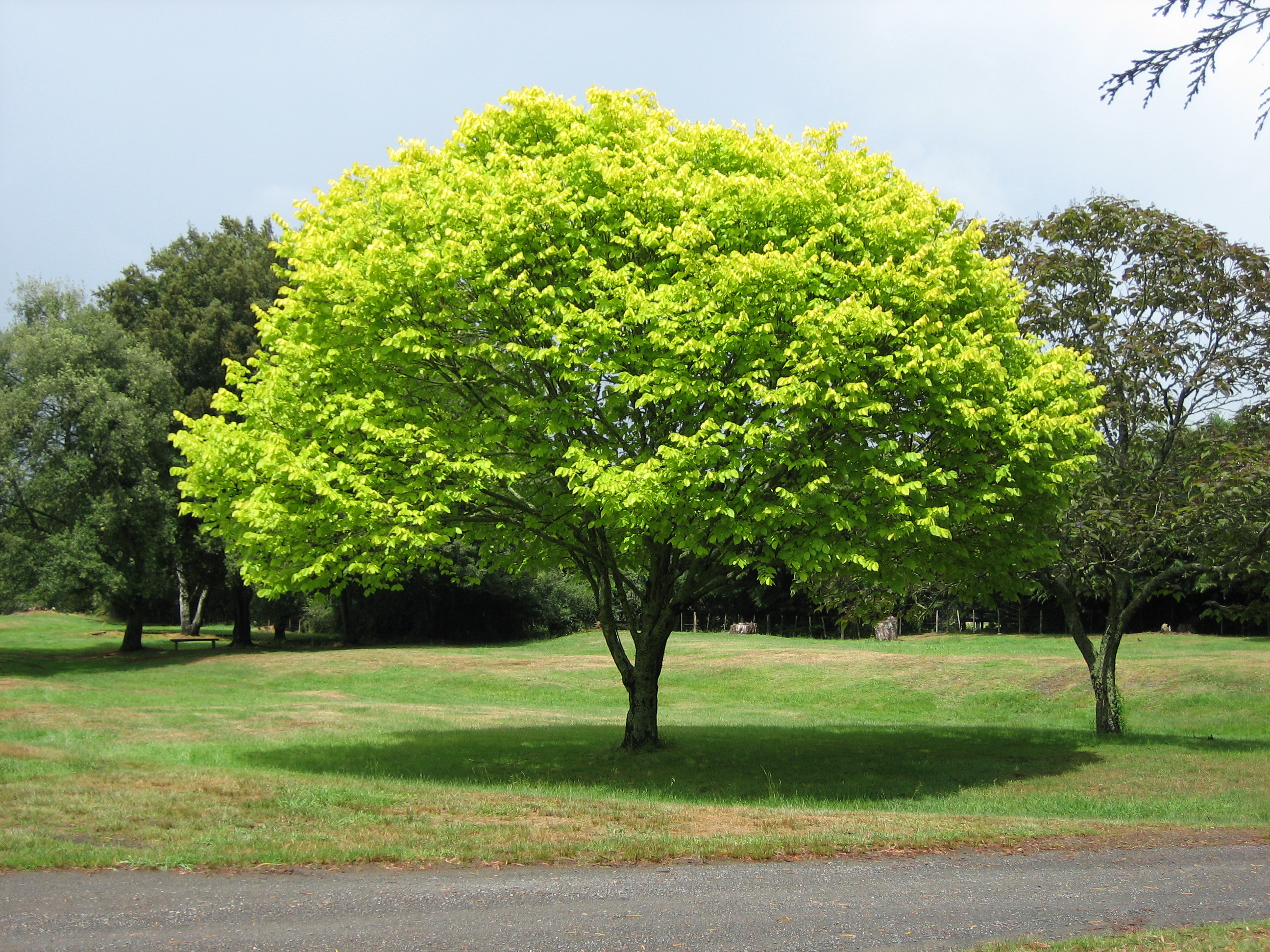 Unidentified tree in Waikato region, New Zealand.